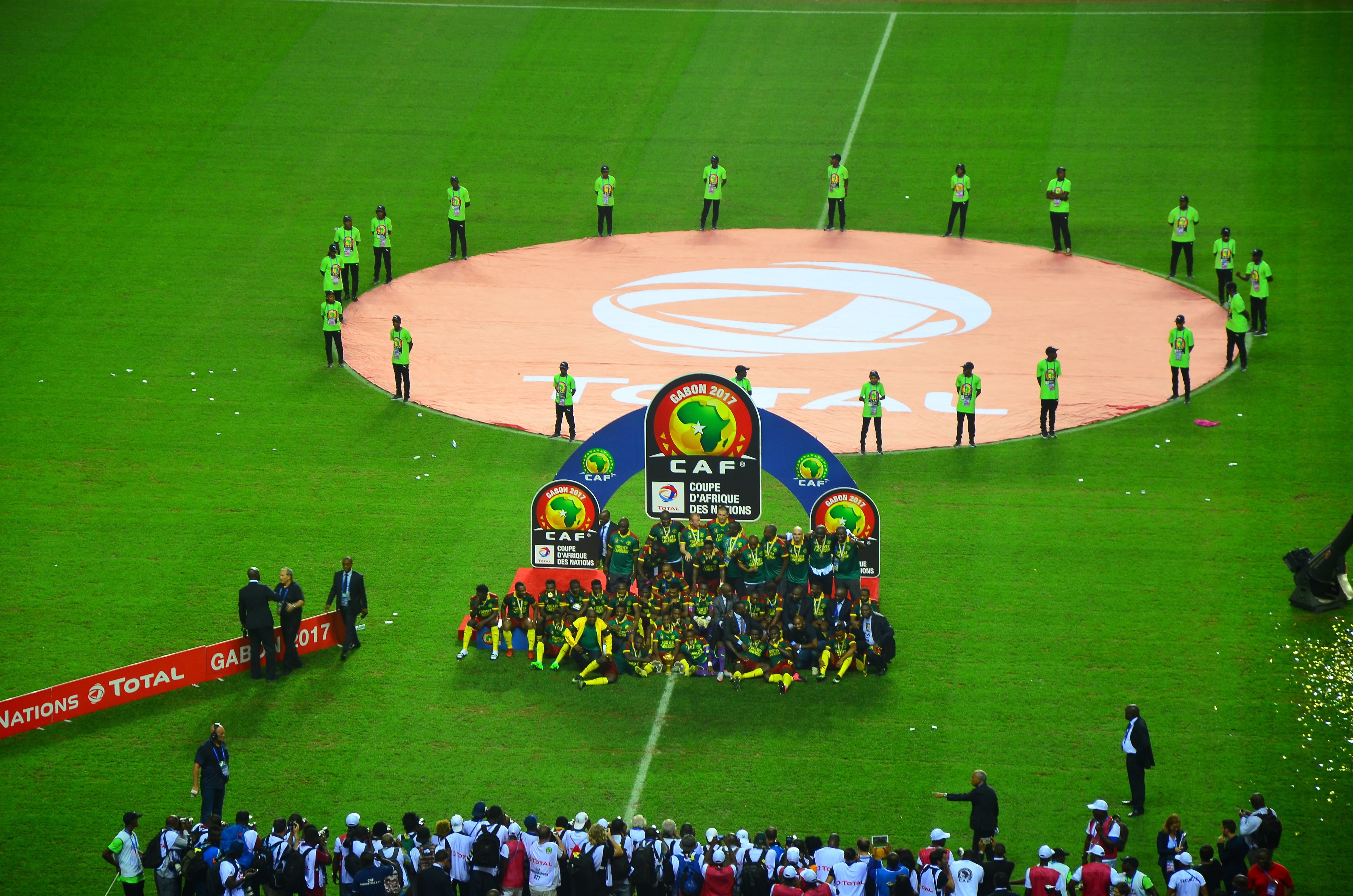 Cameroon celebrating winning 2017 Africa Cup of Nations 喀麦隆庆祝2017年非洲杯胜利